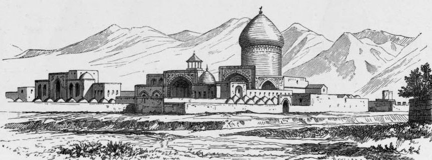 The mosque of Qom (Fatima Masumeh Shrine)